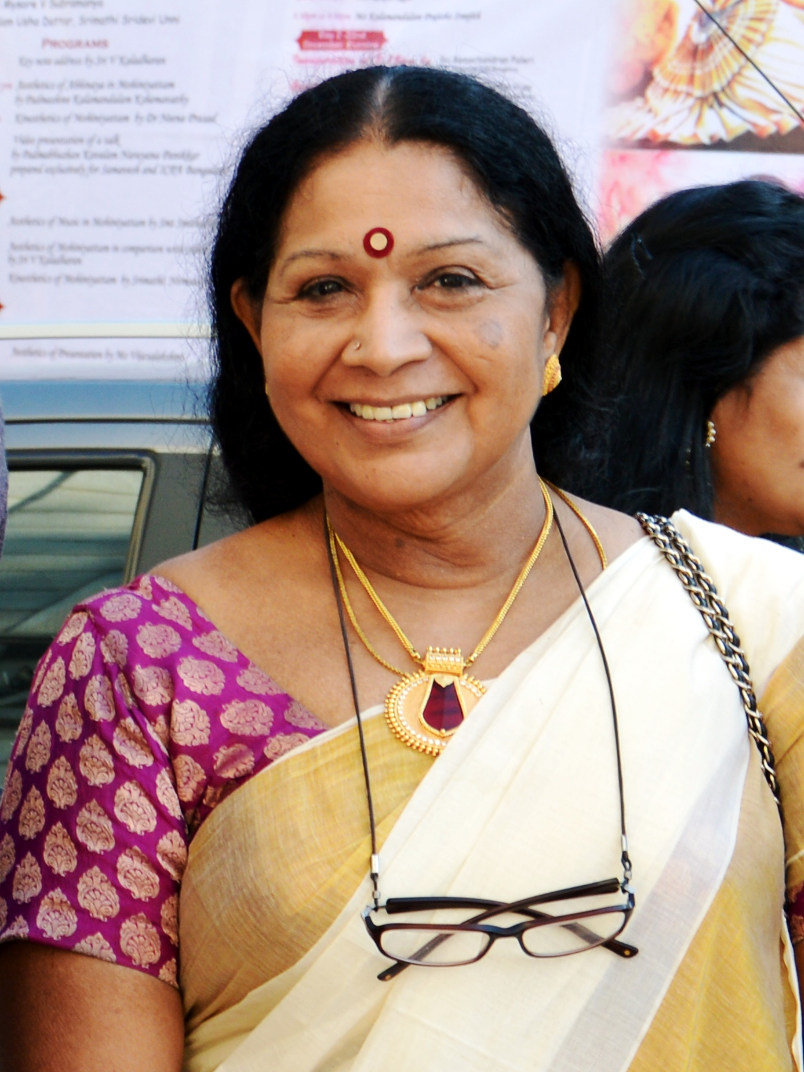 Kalamandalam Kshemavathy (born 1948) is a renowned Mohiniyattam dancer from Thrissur, Kerala. She is an alumna of the reputed Kerala Kalamandalam.